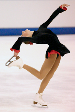 Elena Glebova performs a catch foot layback spin at the 2005 World Junior Championships in Kitchener, Ontario, Canada. Photo by Vesperholly